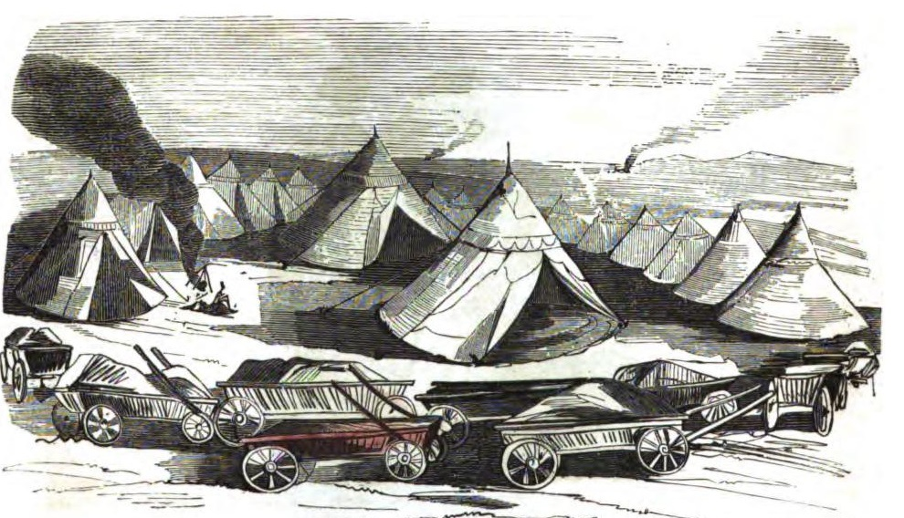 Bunchuk of ukrainian kossacks